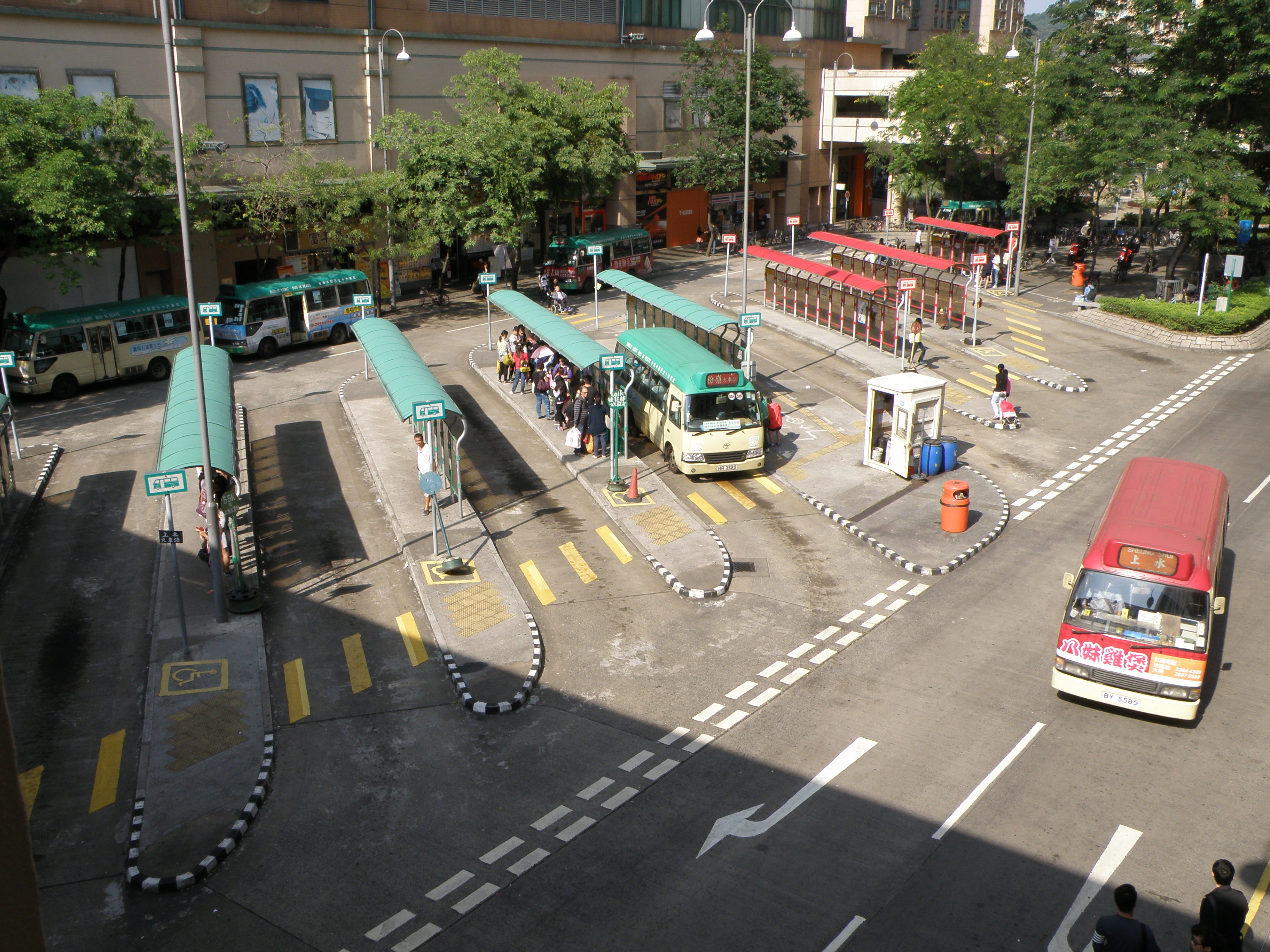 Luen Wo Hui Minibus Terminus in North District, Hong Kong.